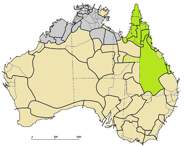 Northeast Pama–Nyungan languages